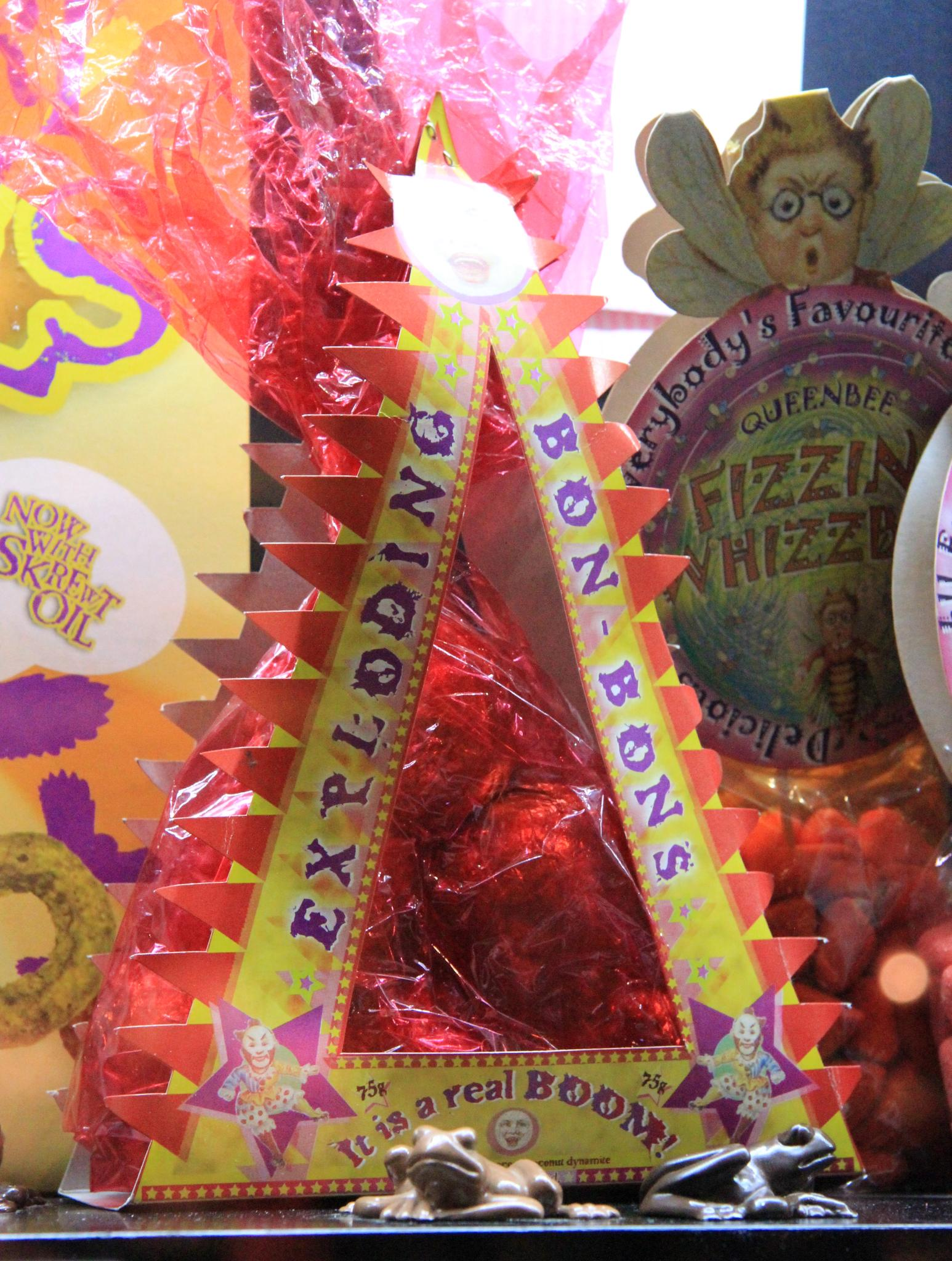 Warner Bros. Studio Tour London: The Making of Harry Potter.